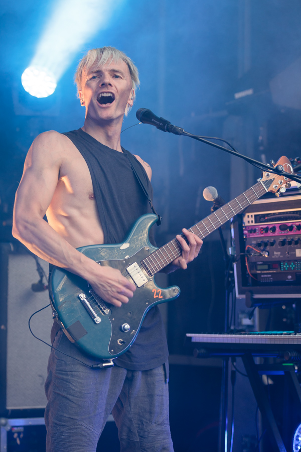 Magnus Børmark in a concert with Gåte at the DnB-stage at Grefsenkollen. The concert was part of Over Oslo and took place on 20. June 2018 in Oslo. Lineup:Gunnhild Sundli (vocal)Sveinung Sundli (fiddle)Jon Even Schärer (drums)Magnus Børmark (guitar)Mats Paulsen (bass guitar)